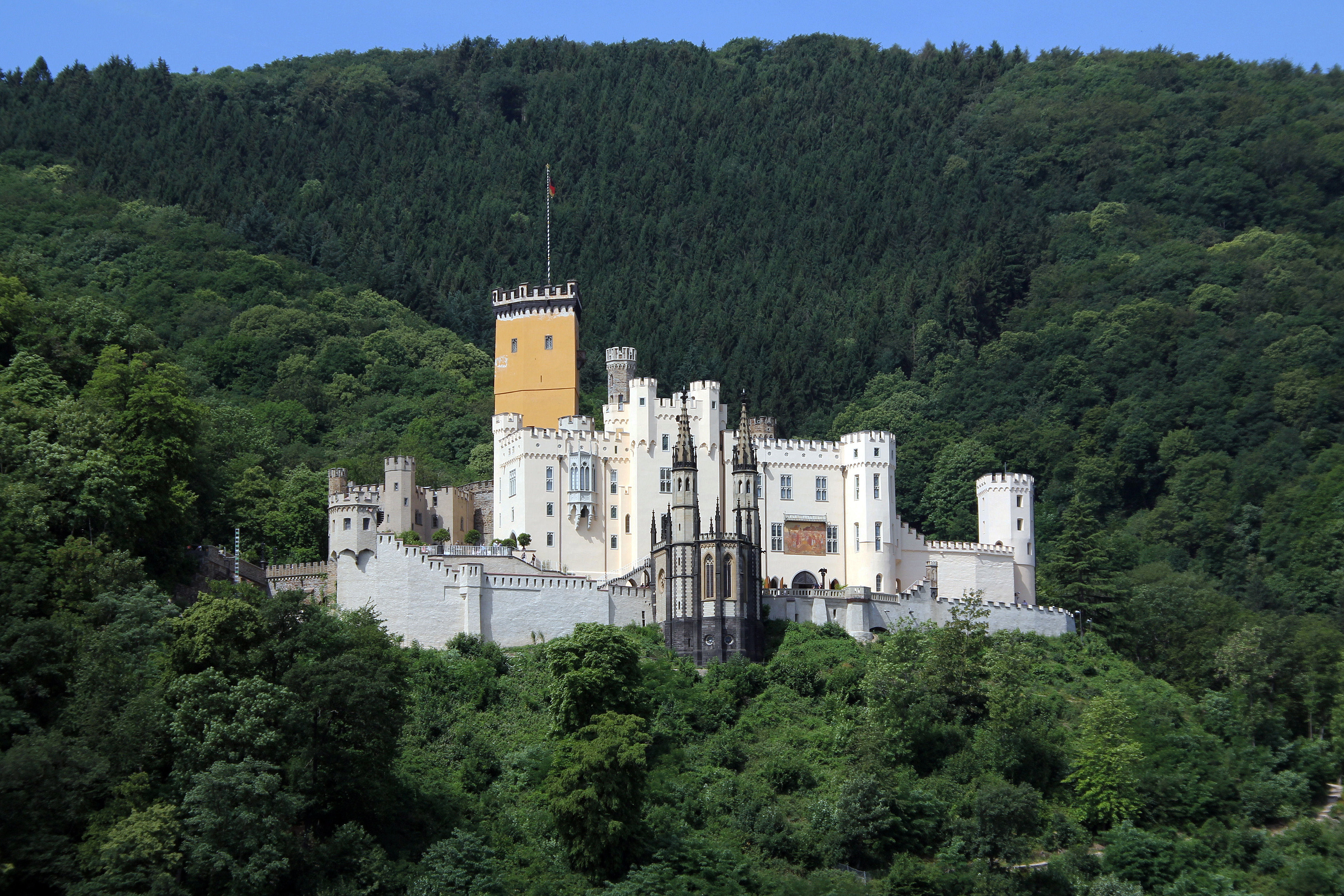 Federal Horticultural Show 2011 in Koblenz - Stolzenfels Castle